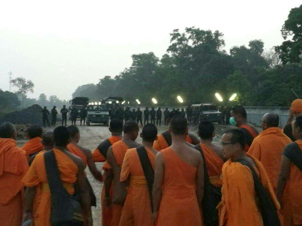 Monks at Wat Phra Dhammakaya meet with soldiers during article 44 lockdown